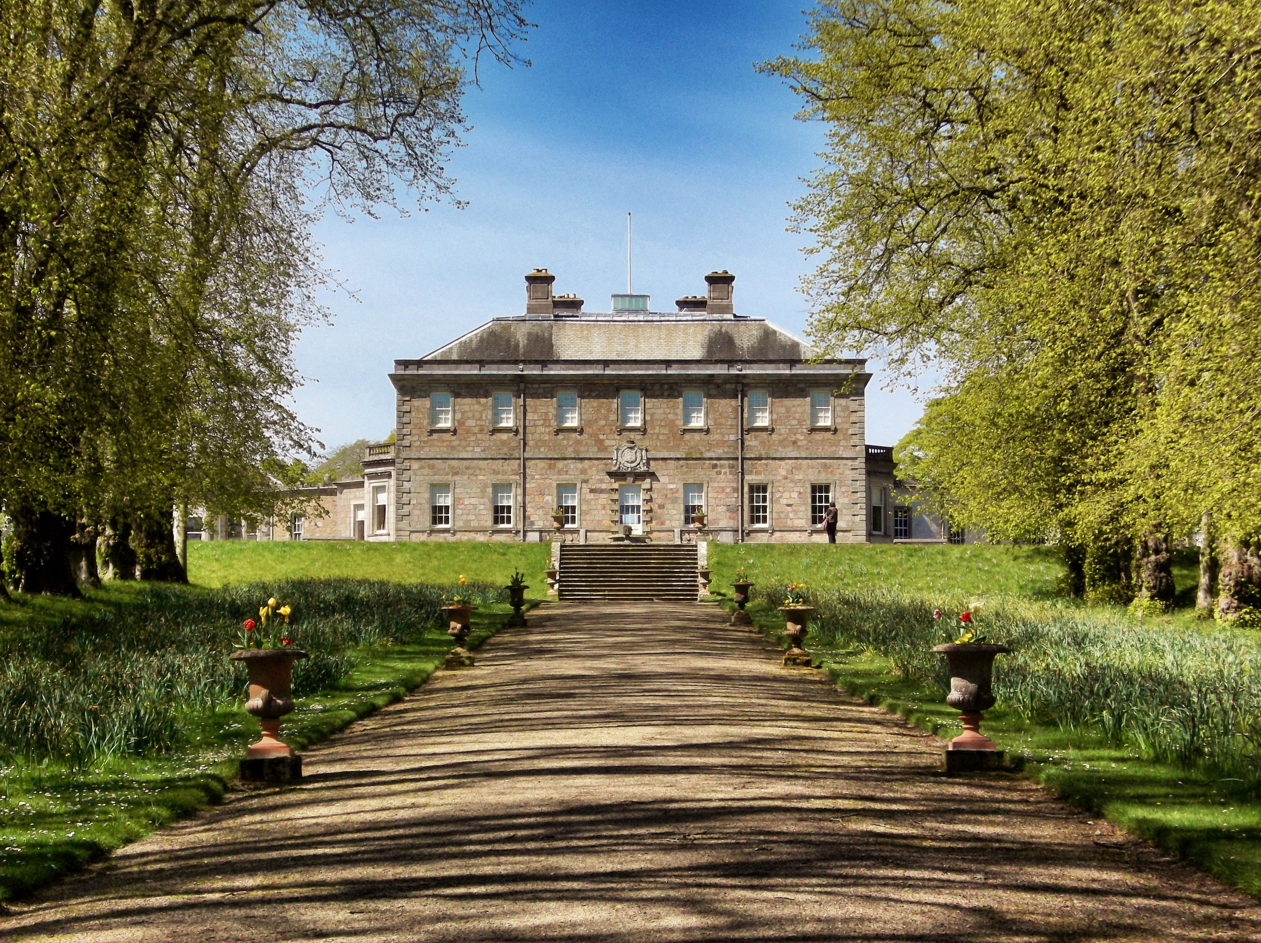 Haddo House seen from the south east